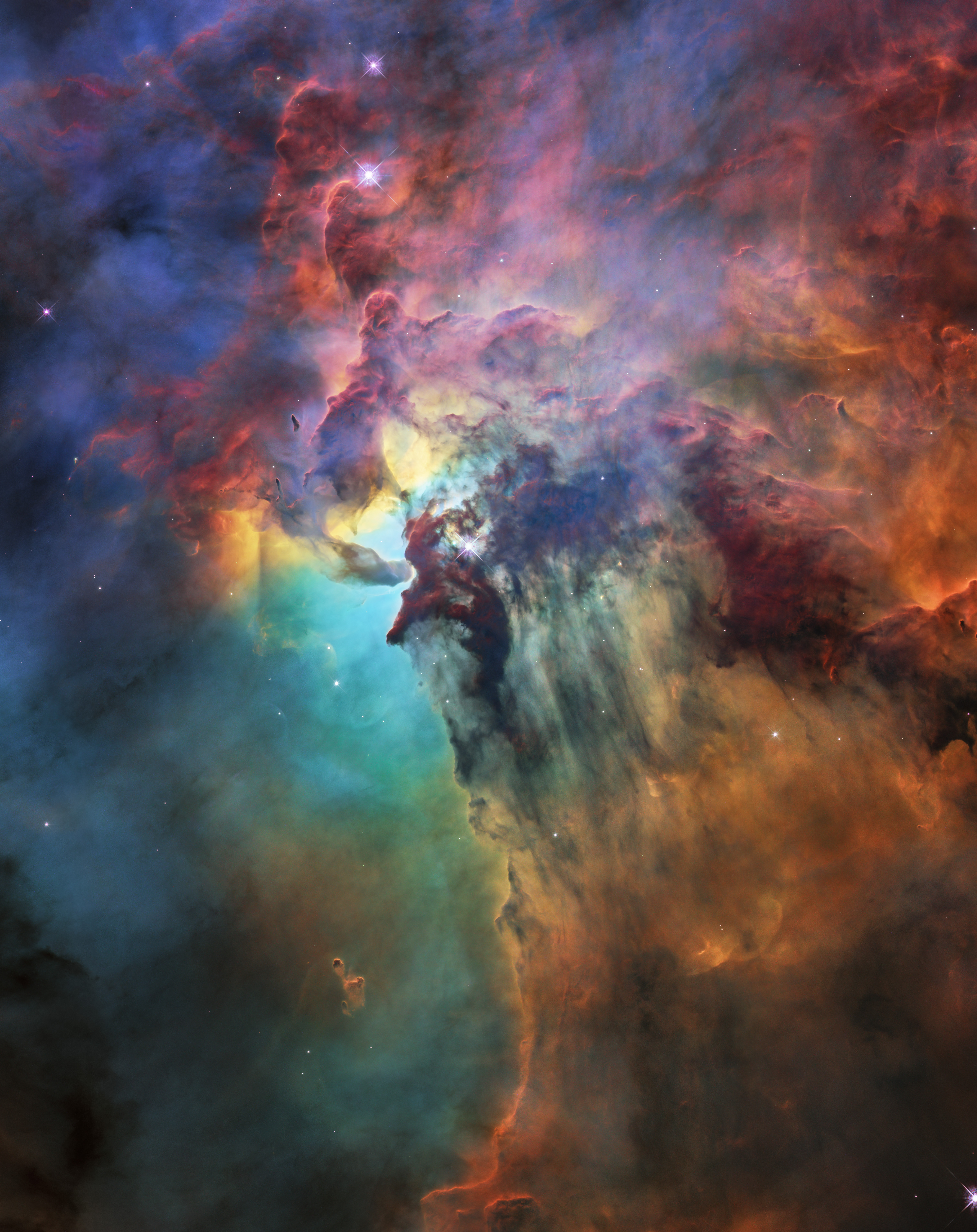 To celebrate its 28th anniversary in space the NASA/ESA Hubble Space Telescope took this amazing and colourful image of the Lagoon Nebula. The whole nebula, about 4000 light-years away, is an incredible 55 light-years wide and 20 light-years tall. This image shows only a small part of this turbulent star-formation region, about four light-years across. This stunning nebula was first catalogued in 1654 by the Italian astronomer Giovanni Battista Hodierna, who sought to record nebulous objects in the night sky so they would not be mistaken for comets. Since Hodierna’s observations, the Lagoon Nebula has been photographed and analysed by many telescopes and astronomers all over the world. The observations were taken by Hubble’s Wide Field Camera 3 between 12 February and 18 February 2018.